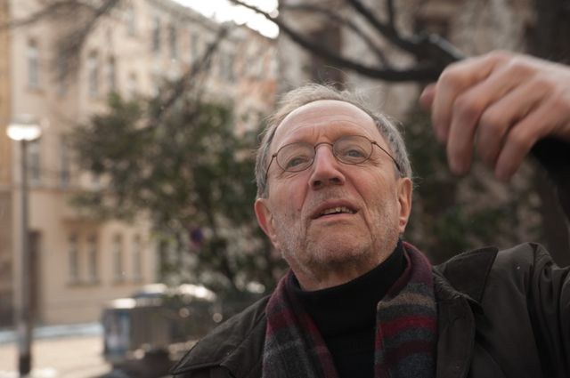 Dieter Bub